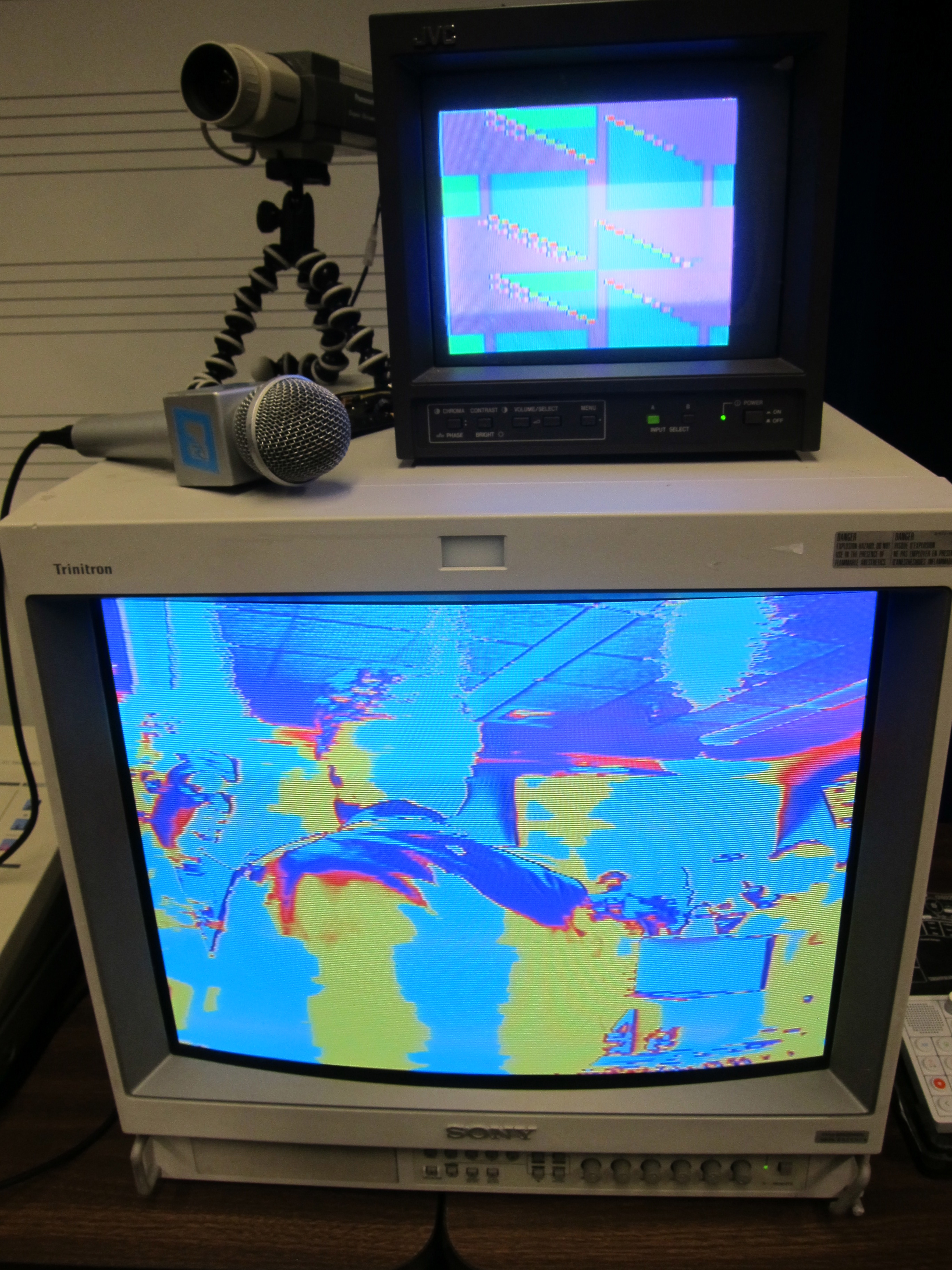 Video synthesizer, PNW SynthFest 2013 "I have no idea what this is"